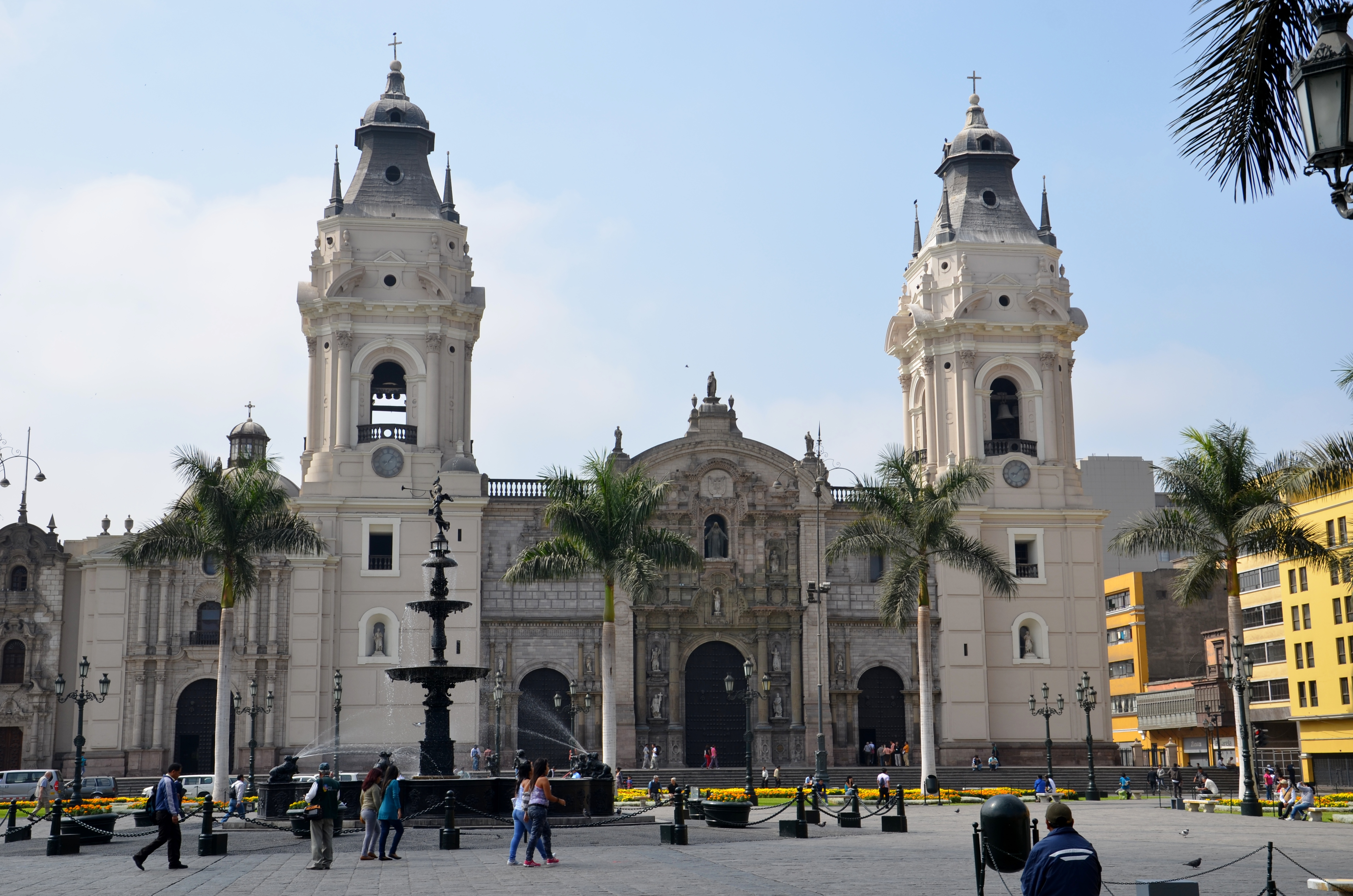 The Basilica Cathedral of Lima is a Roman Catholic cathedral located in the Plaza Mayor of downtown Lima, Peru.